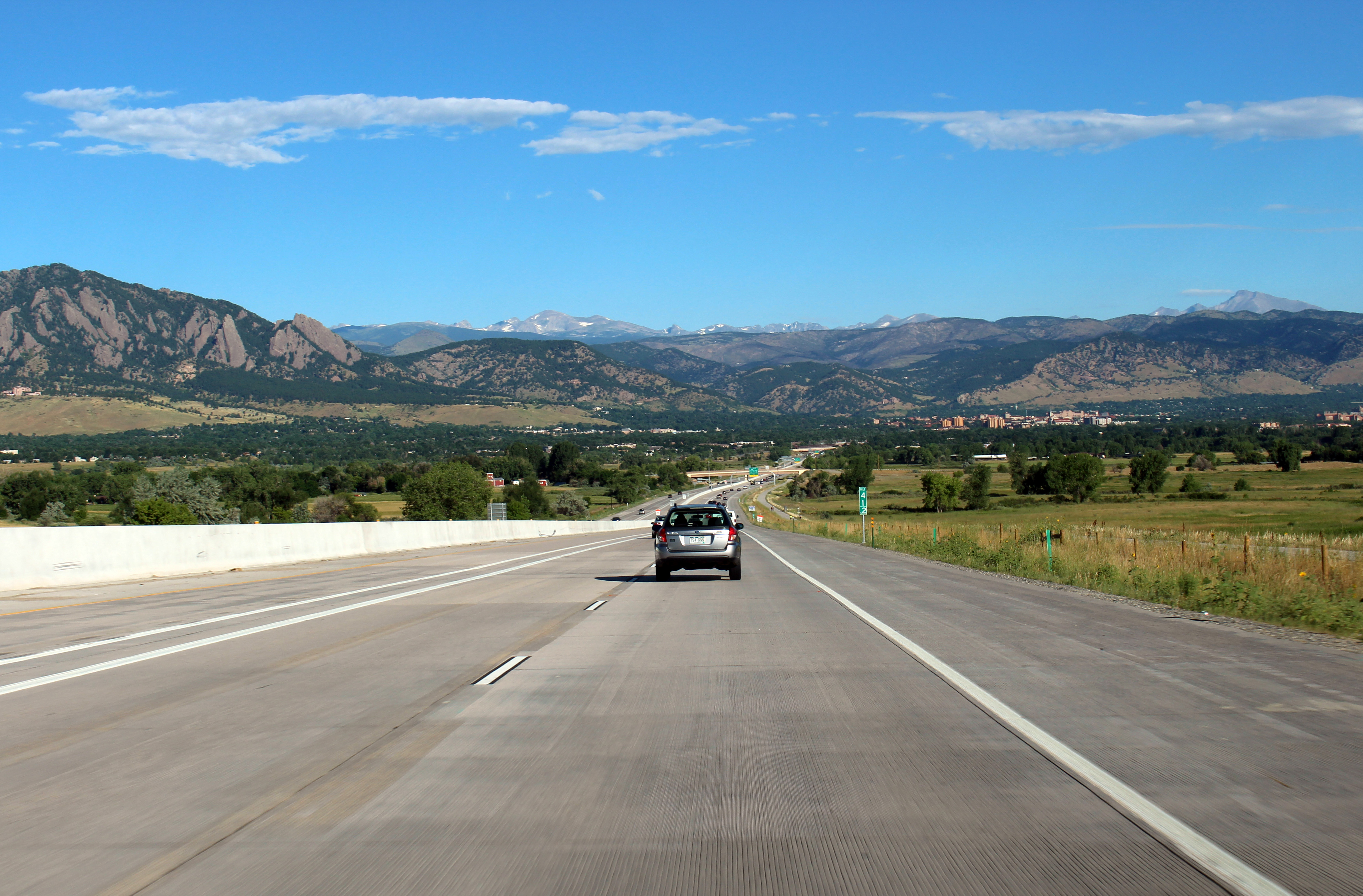 The view from northbound U.S. Route 36 in Colorado (the Boulder-Denver Turnpike) as the highway descends into Boulder. Photographed by user Coolcaesar on July 23, 2016.